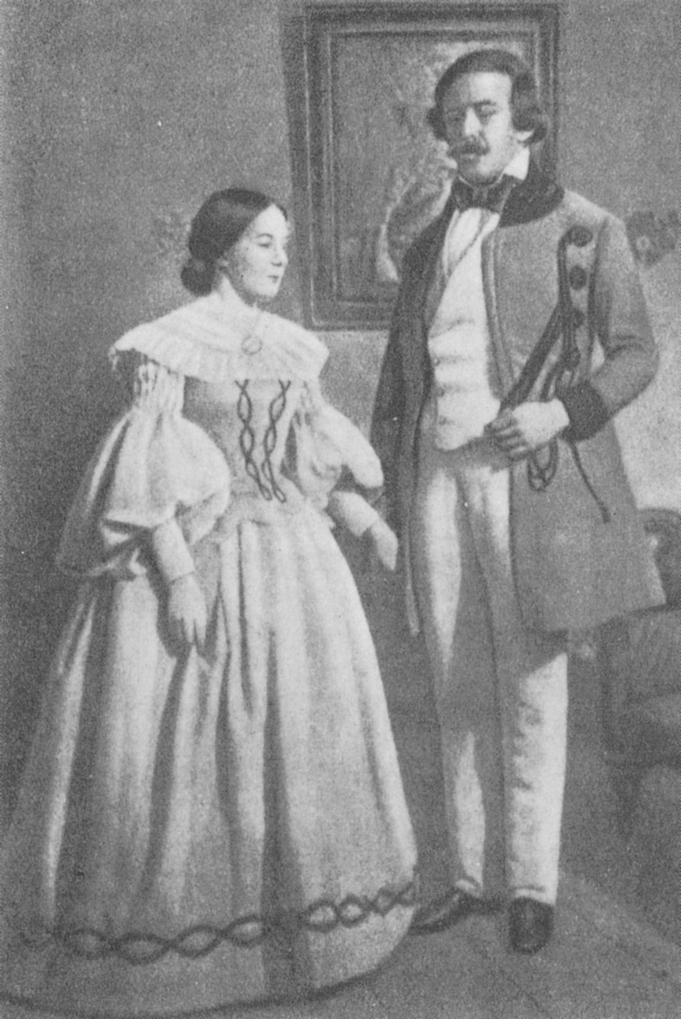 The Russian actor and director Constantin Stanislavski (Константин Сергеевич Станиславский) with his wife Maria Lilina in Foma in 1893